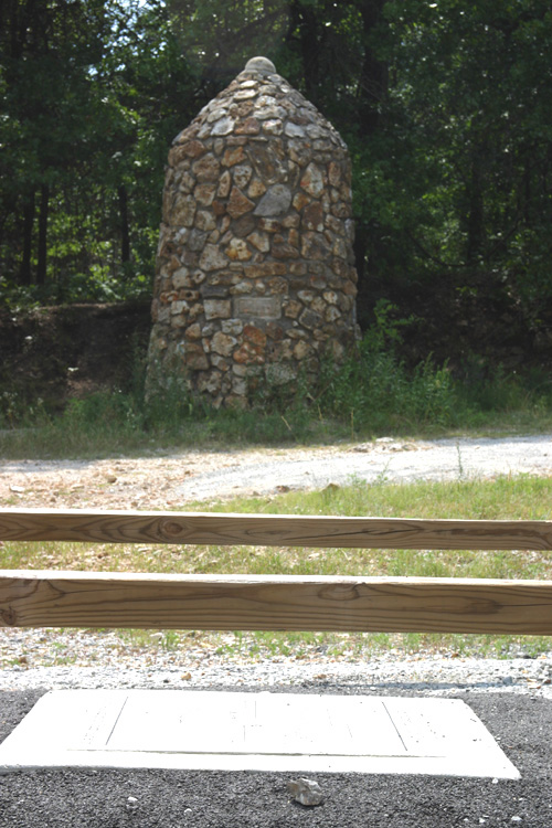 Old and new tri-state markers at the meeting of the Kansas, Oklahoma, and Missouri borders. The original stone monument was built in 1938 by the Youth Work Administration. The new monument was placed in October 2004 and lies several feet east of the old monument. ⇒Modern marker